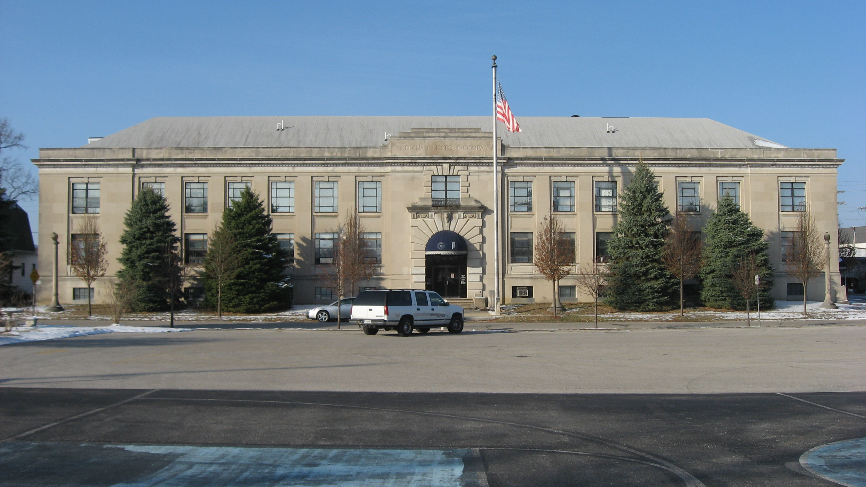 Front of the former Indiana Limestone Company Building, located at 405 I Street in Bedford, Indiana, United States. Built in 1927 and now the location of a branch of Oakland City University, it is listed on the National Register of Historic Places.